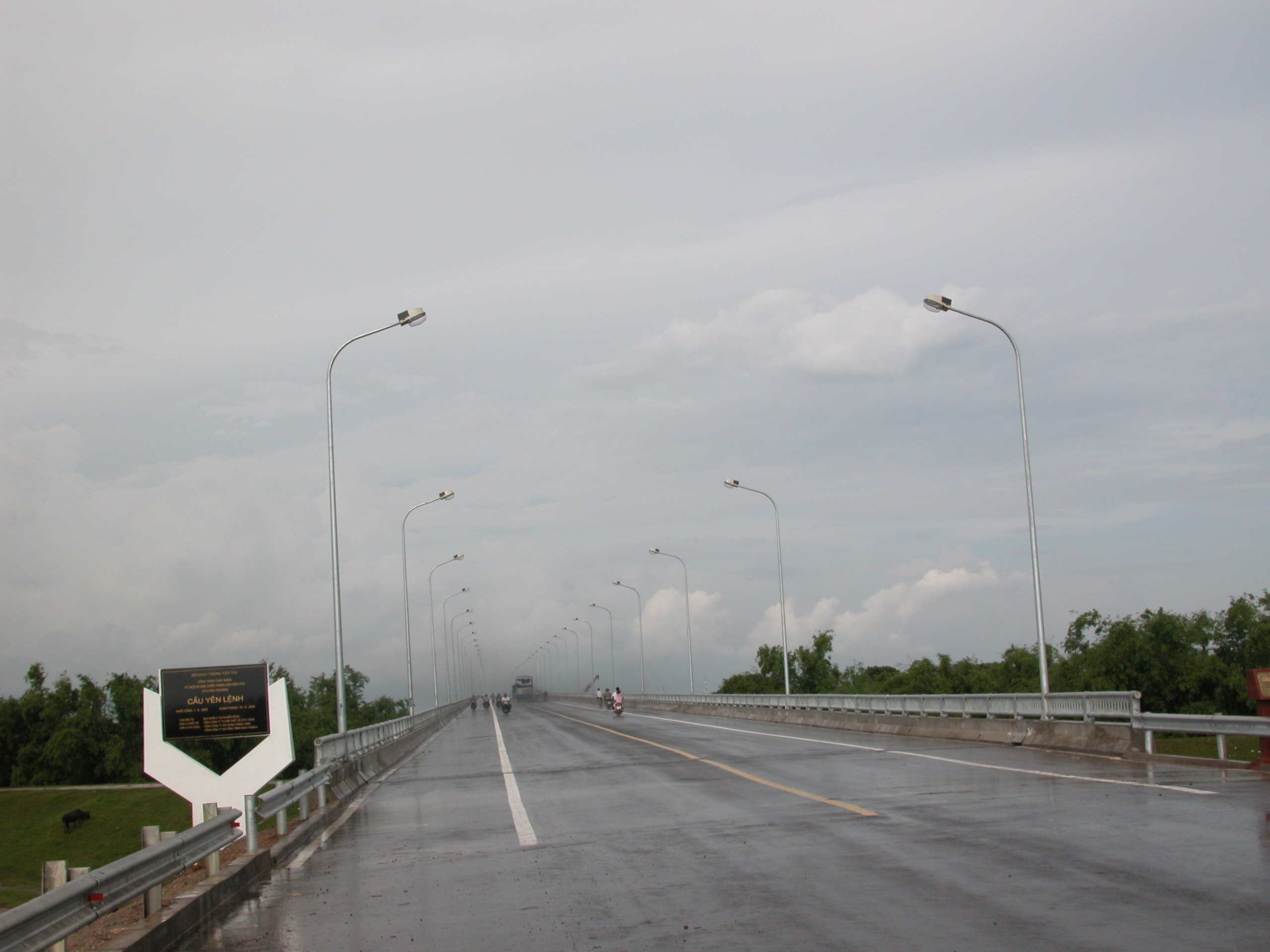 Yên Lệnh bridge over Red River, connecting Ha Nam Province and Hung Yen Province.